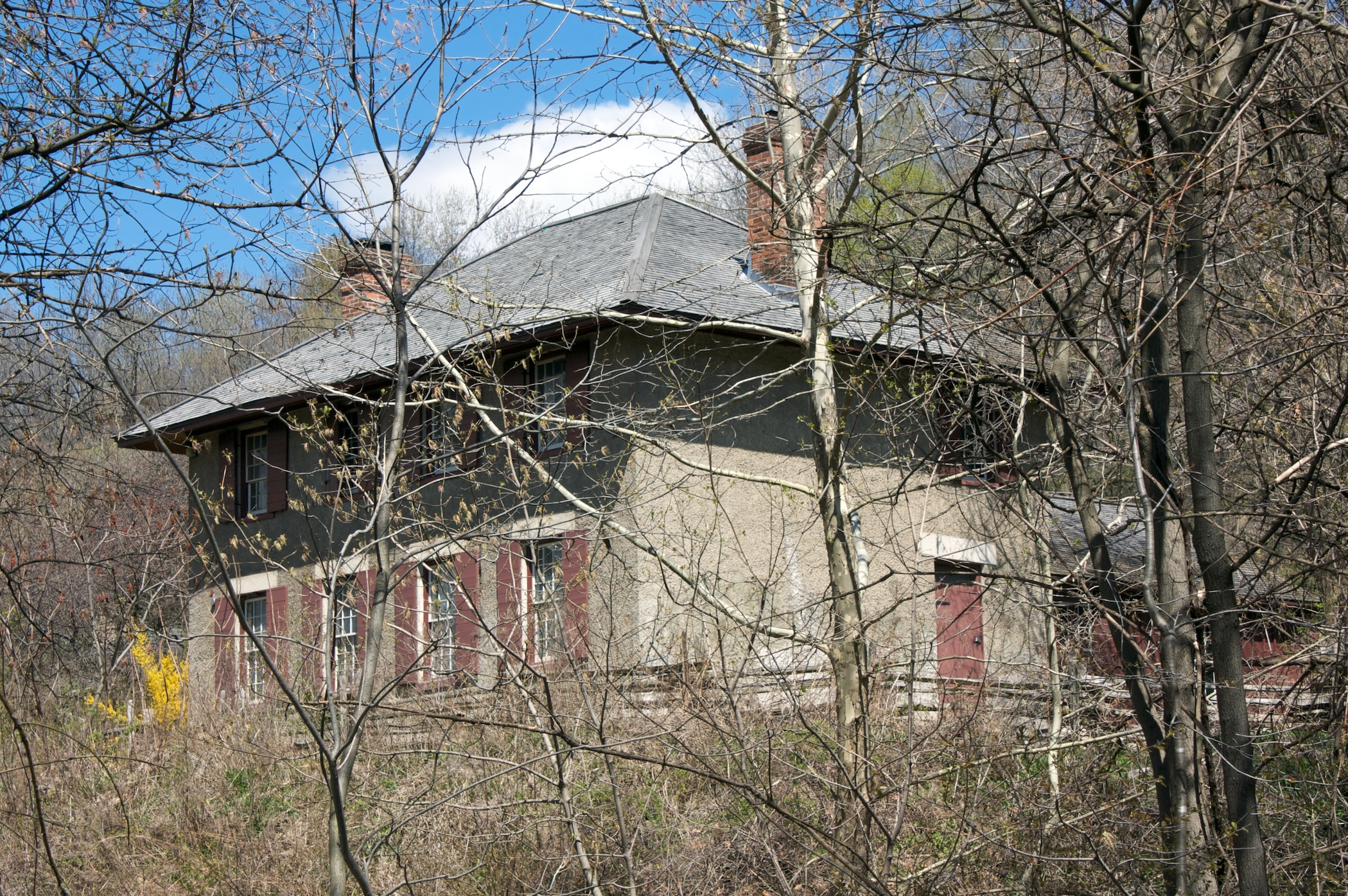 Helliwell House at Todmorden Mills, Toronto, Ontario, Canada. Named after the Helliwell family, the Helliwells were originally from Todmorden in Lancashire, England and renamed the area along the Don River after their native town. The family established a successful brewery and distillery in the Don Valley. Helliwell House was built by William Helliwell in 1838 to accommodate his young family. It is a rare example of a surviving adobe mud brick home in Toronto.